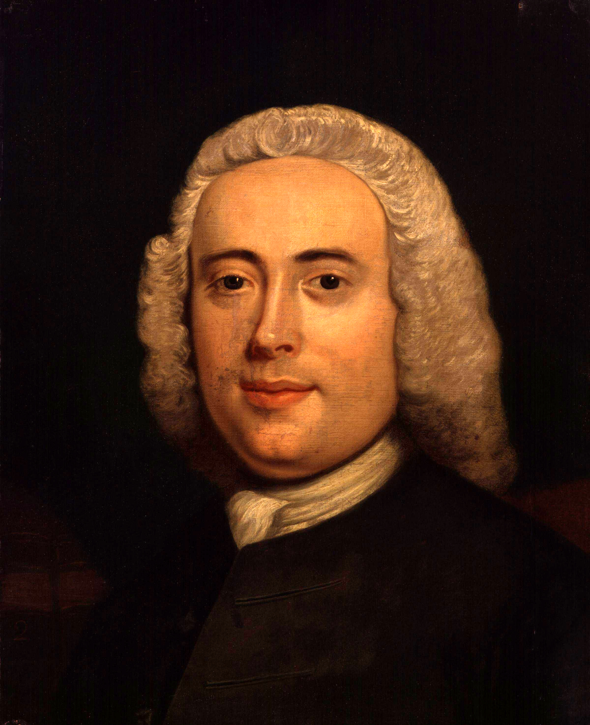 John Canton, by unknown artist, given to the National Portrait Gallery, London in 1888. All images in this batch are listed as "unknown author" by the NPG, who is diligent in researching authors, and was donated to the NPG before 1939 according to their website.